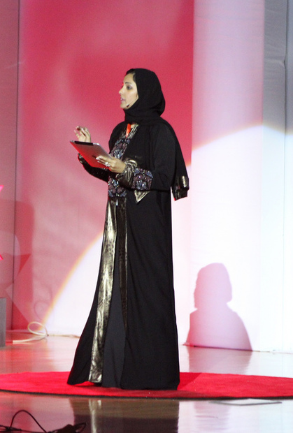 Randa Al-Sheikh hosting TEDx Arabia 2011